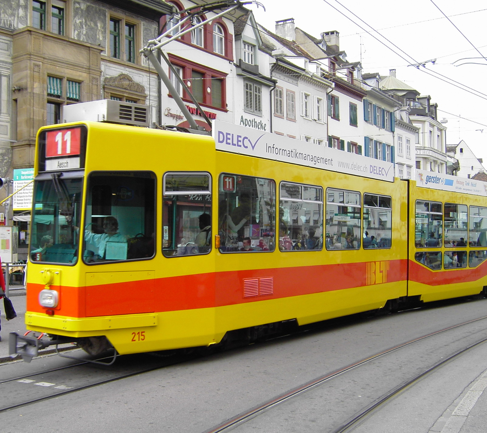 30px Beschreibung: Straßenbahn der Baselland Transport AG Quelle: selbst aufgenommen Fotograf: CrazyD, 16. Aufgust 2005 Lizenzstatus: GNU FDL Description: tram of the Baselland Transport AG Source: photo was taken by my self Photographer: CrazyD, 16 August 2005 Licence: GNU FDL